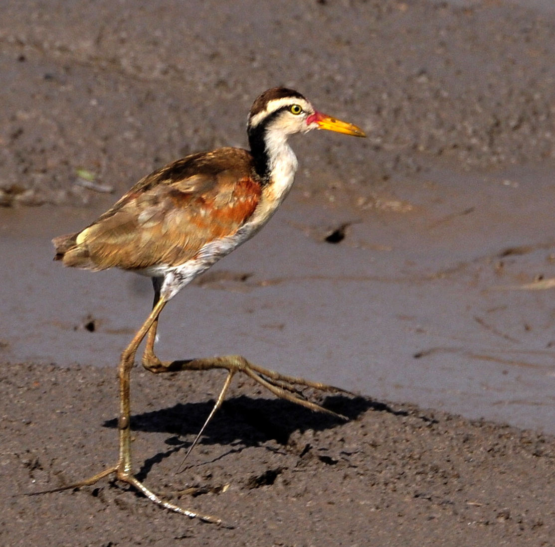 A juvenile Wattled Jacana in Dourados, Mato Grosso do Sul, Brazil.